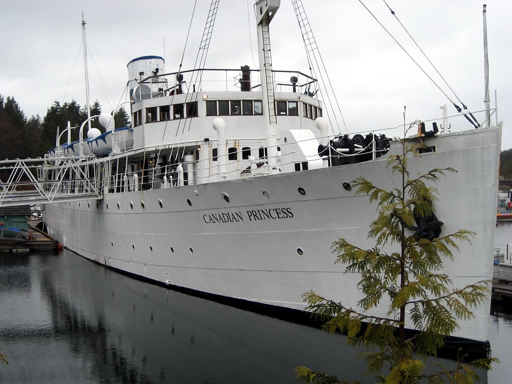 The Canadian Princess, a former hydrographic survey ship which plied Canada's Pacific coast from 1932 to 1975, is now a floating hotel permanently moored at Ucluelet, BC.